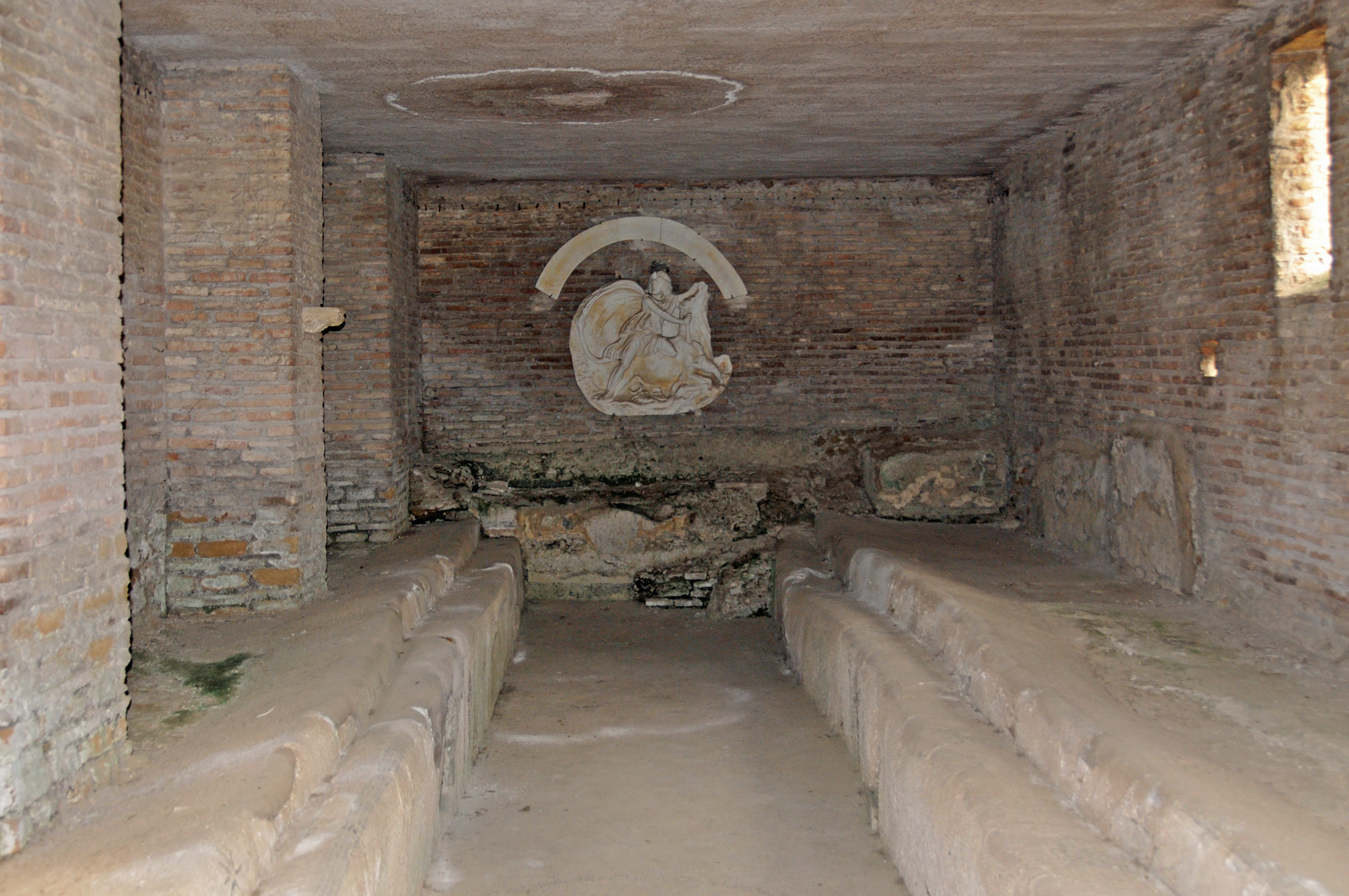 This is an image of the Sette Sfere Mithraeum in Ostia Antica.